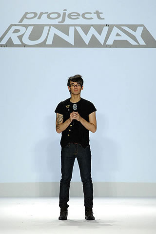 Christian Siriano